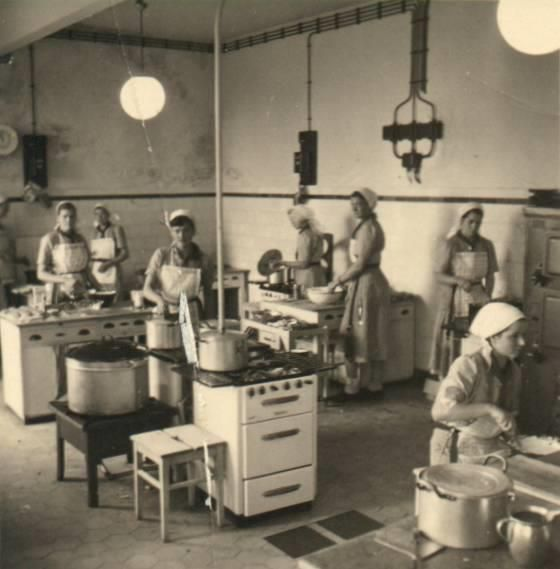 Reifensteiner Schule Obernkirchen, aufgenommen um 1960, Fotograf unbekannt